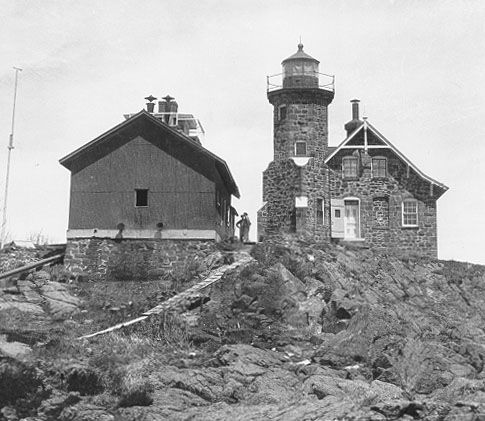 Passage Island Light — Isle Royale National Park.